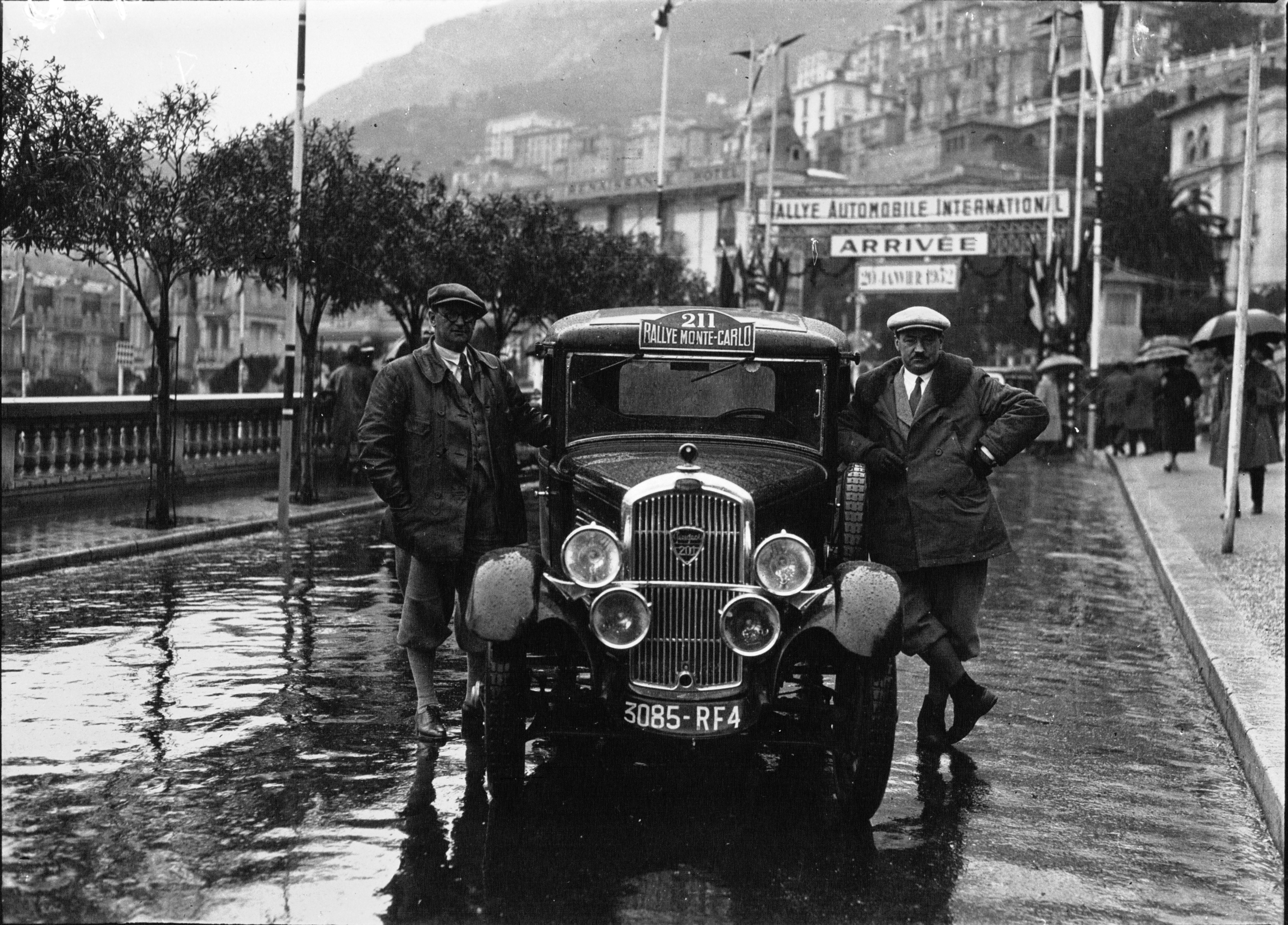 French racecar driver André Boillot (1891-1932) at the 1932 Monte Carlo Rally. Their entry #211 is a Peugeot 201C 1085ccm engine, they ended in 2nd place in the below 1500 ccm category.[1]